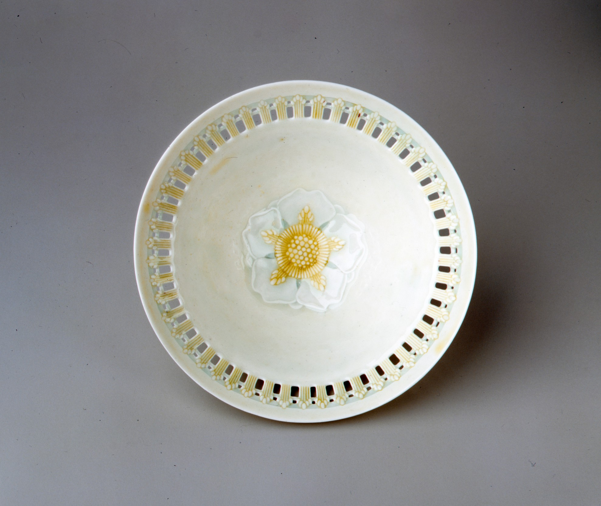 Bowl; Ceramics-Porcelain